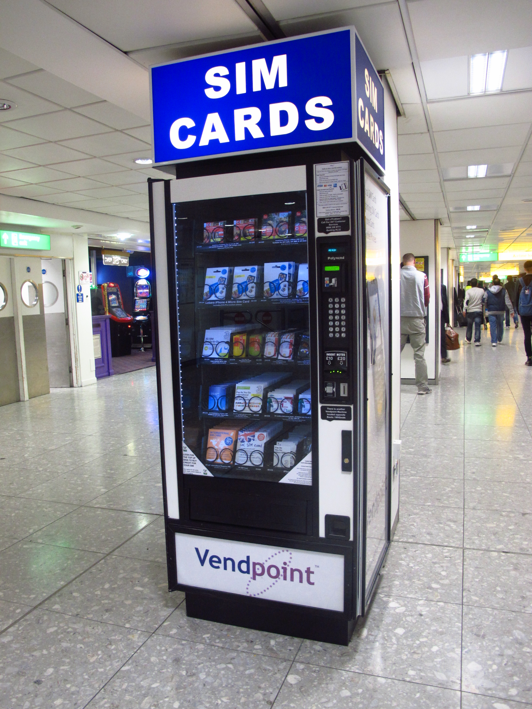 Simcard Vending Machine found in Heathrow Airport - terminal 3 UK